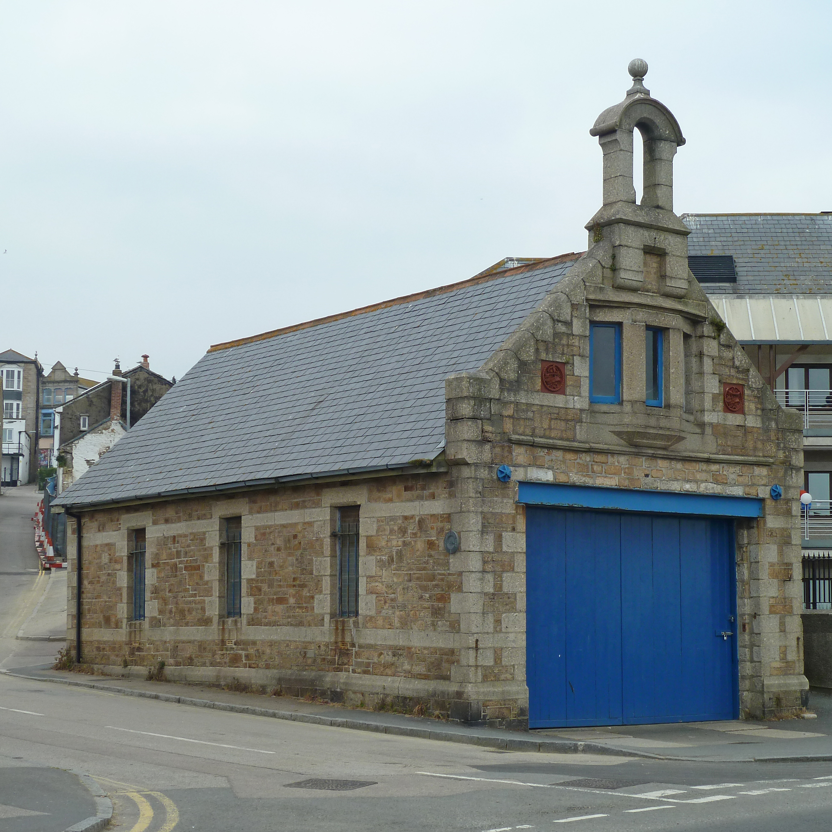 Grade II LIsted. 1884. Square coursed granite with ashlar dressings, slate roof. Single storey rectangular shed with double doors (modern), under an apparently replacement lintel, in the gable and three light oriel with granite mullions over door. This is flanked by terracotta roundels with the RNLI crest. Coped gable with kneelers, arched bellcote with ball finial. Long elevation with 3 square headed small paned windows. The lifeboat was kept at Penzance from 1803-1917 and in this building 1885-1917. It is one of the best surviving examples in Cornwall.